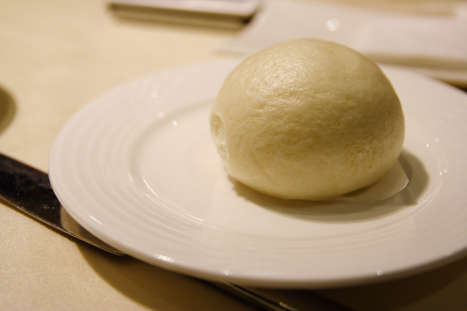 奶黃包 (Steamed creamy custard bun), a kind of Cantonese dim sum.